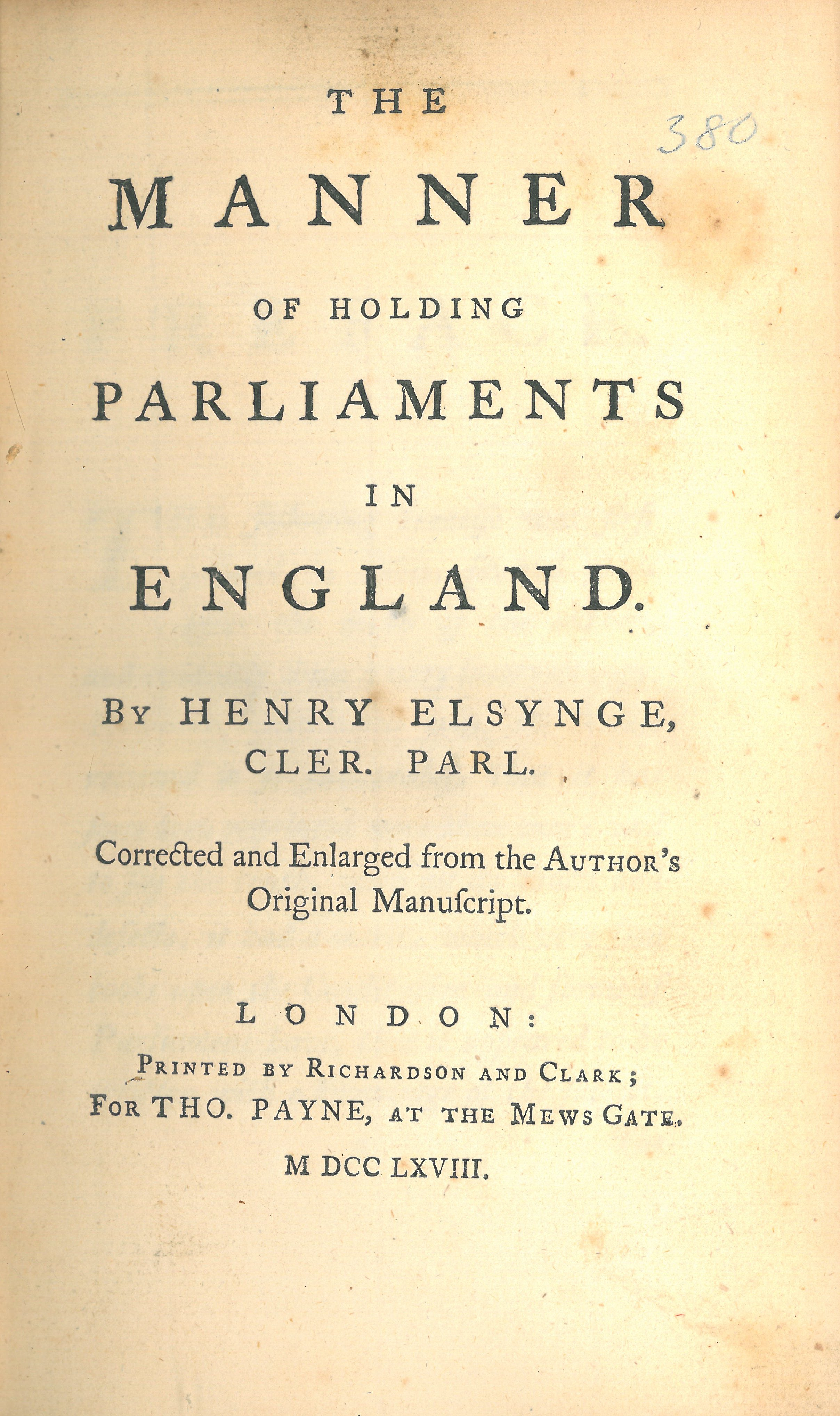 Title page of Henry Elsynge (1768) Thomas Tyrwhitt , ed. The Manner of Holding Parliaments in England. By Henry Elsynge, Cler. Parl. Corrected and Enlarged from the Author's Original Manuscript, London: Printed by Richardson and Clark; for Tho[mas] Payne, at the Mews Gate OCLC: 508937999.